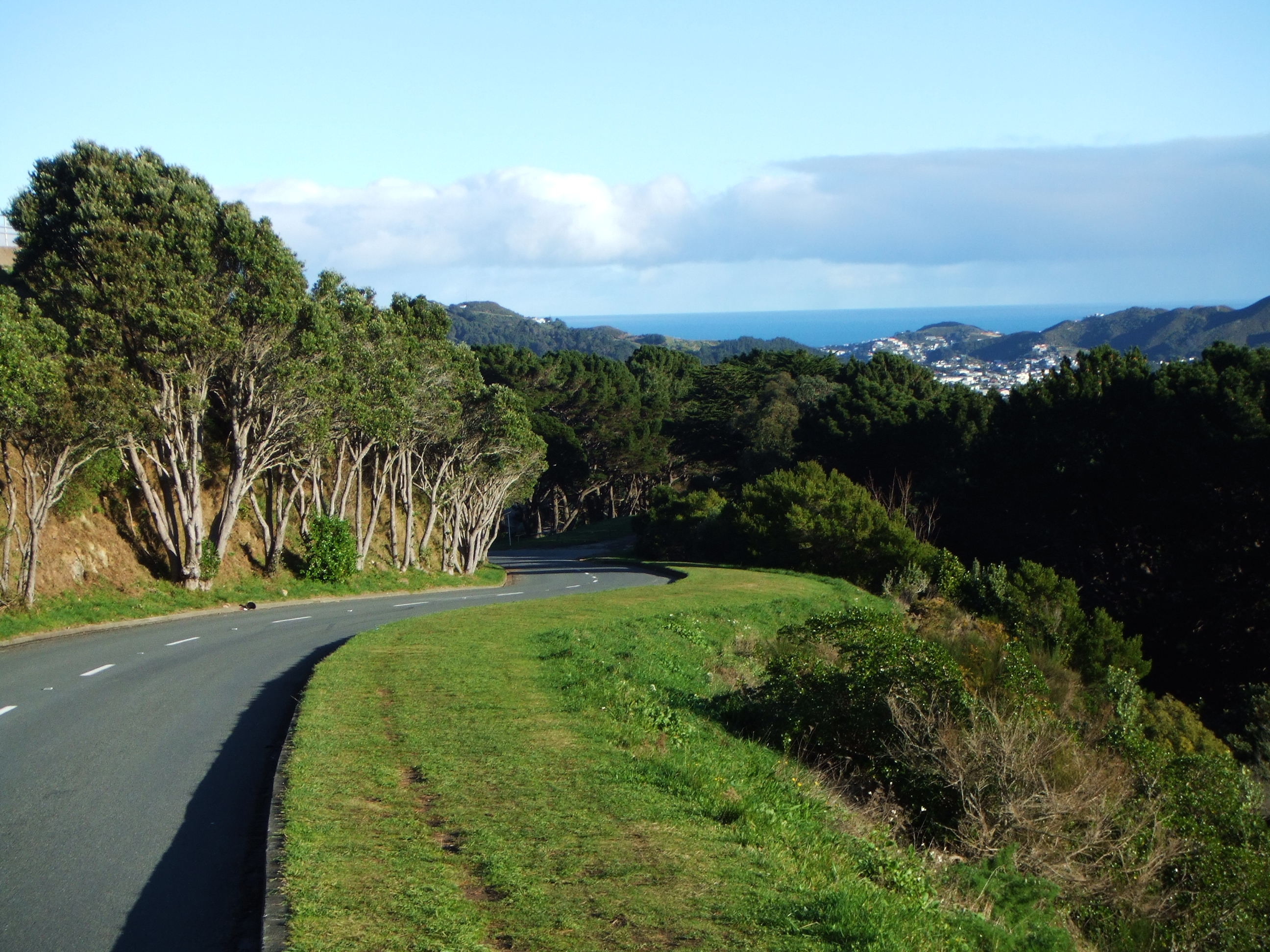 Access to summit Mount Victoria Wellington Town Belt